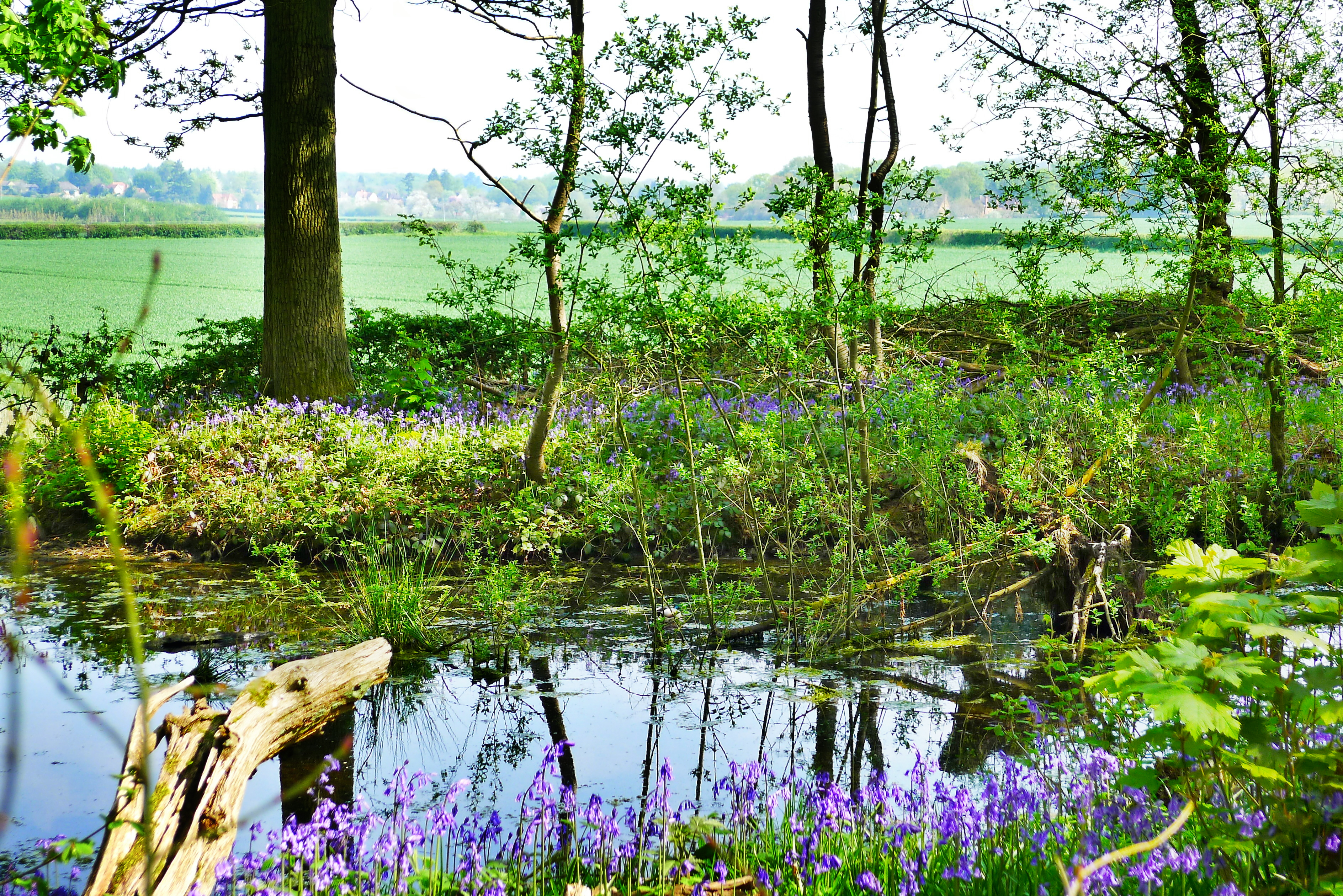 Bluebells in Bisham Woods, near Maidenhead, Berkshire